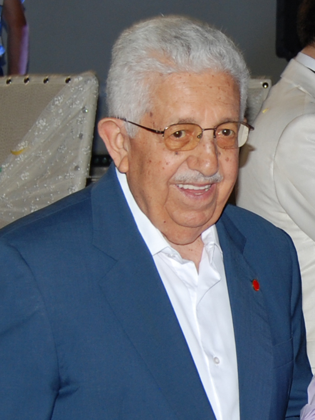 Turkish politician Mehmet Recai Kutan, former head of Felicity Party.